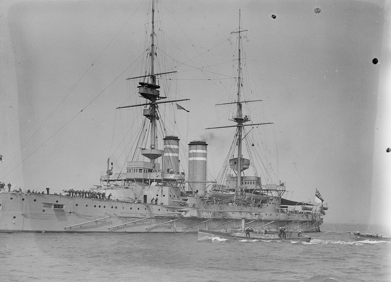 Photograph showing port bow view of British battleship HMS Queen with awning rigged aft, anchored at Spithead.